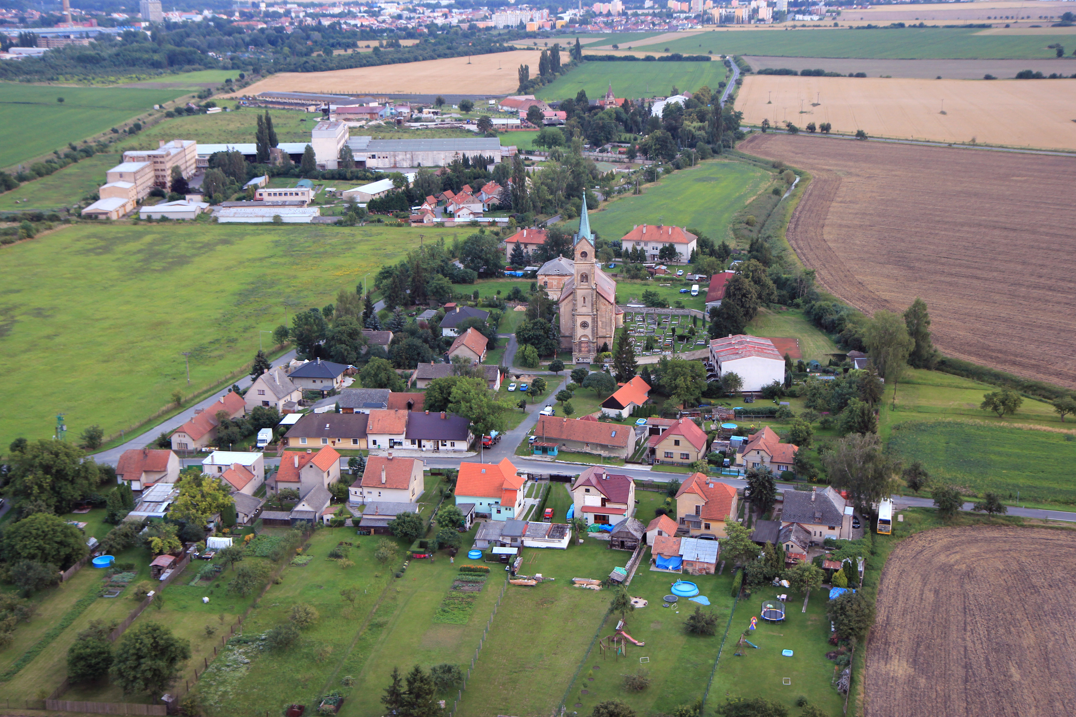 Aerial view of Veleliby, part of Dvory village, Czech Republic